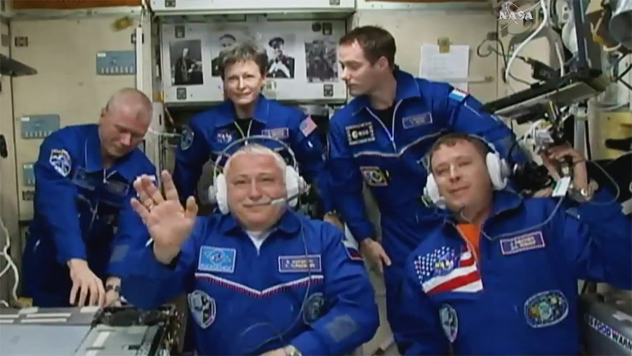 New Expedition 51 crew members (front row, from left) Fyodor Yurchikhin and Jack Fischer talk to family members on the ground shortly after arriving entering the space station. In the back from left are Oleg Novitskiy, Commander Peggy Whitson and Thomas Pesquet.